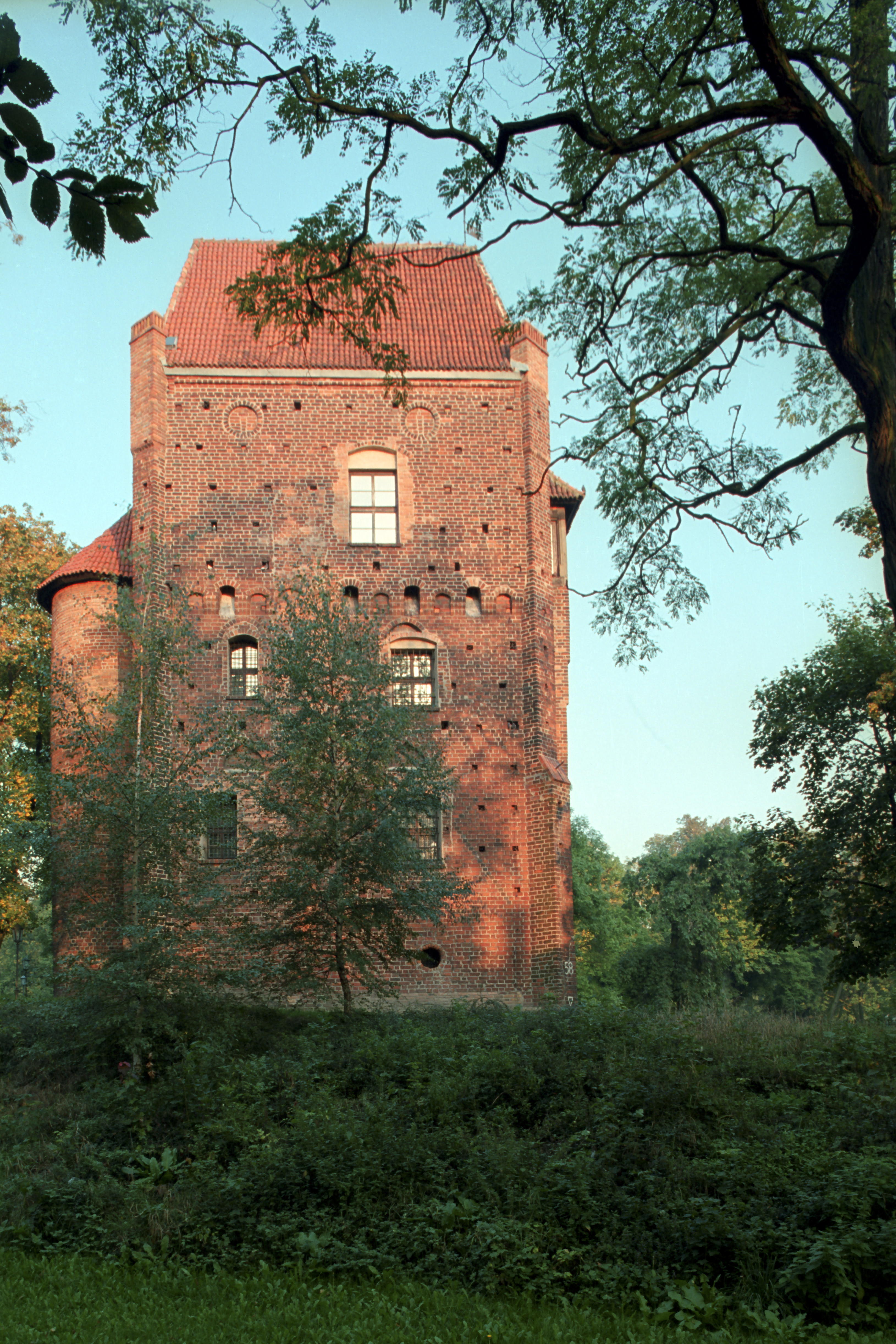 Poland, Szamotuly Castle